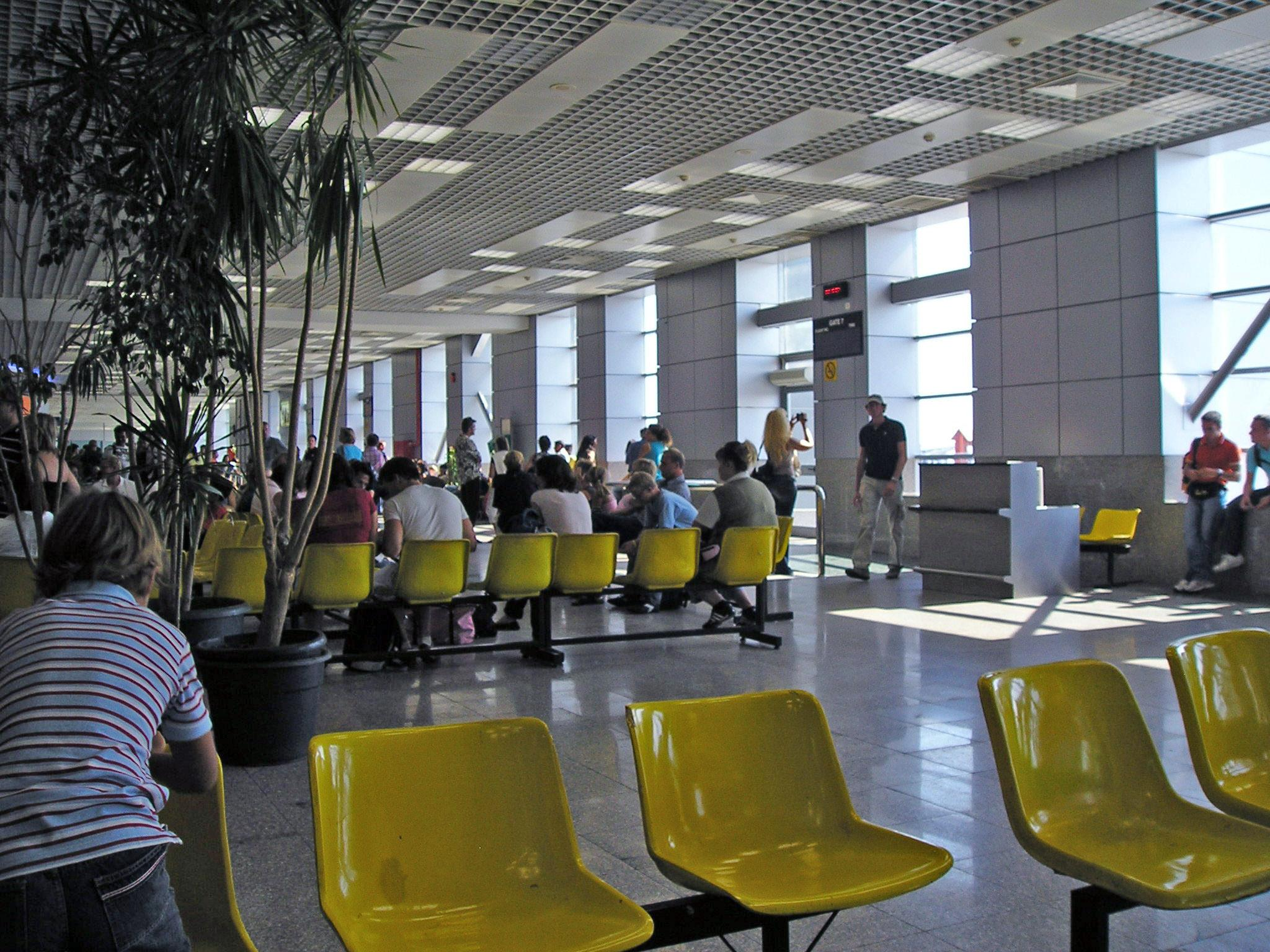 Hurghada Airport in Egypt